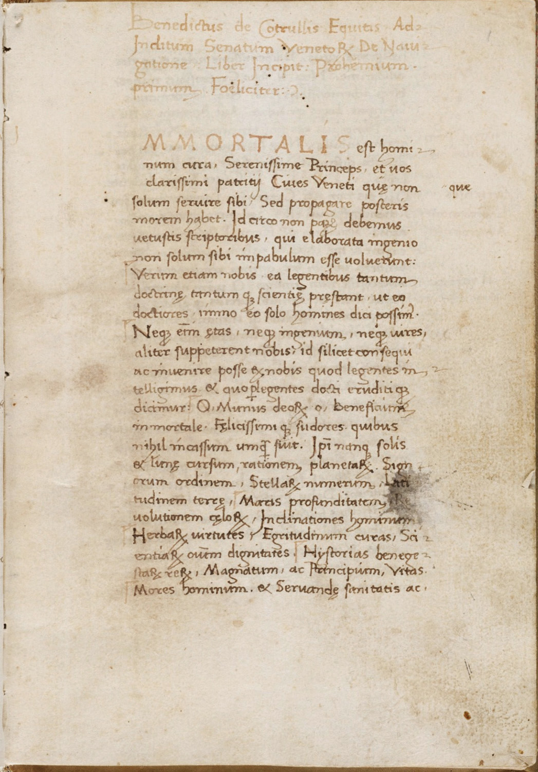 De navigatione liber is the first known (handwritten) manual on navigation, issued in 1464, which is almost three decades before C. Colombos' first journey to the New World. -- 141 pages, size: 20.5x14cm.